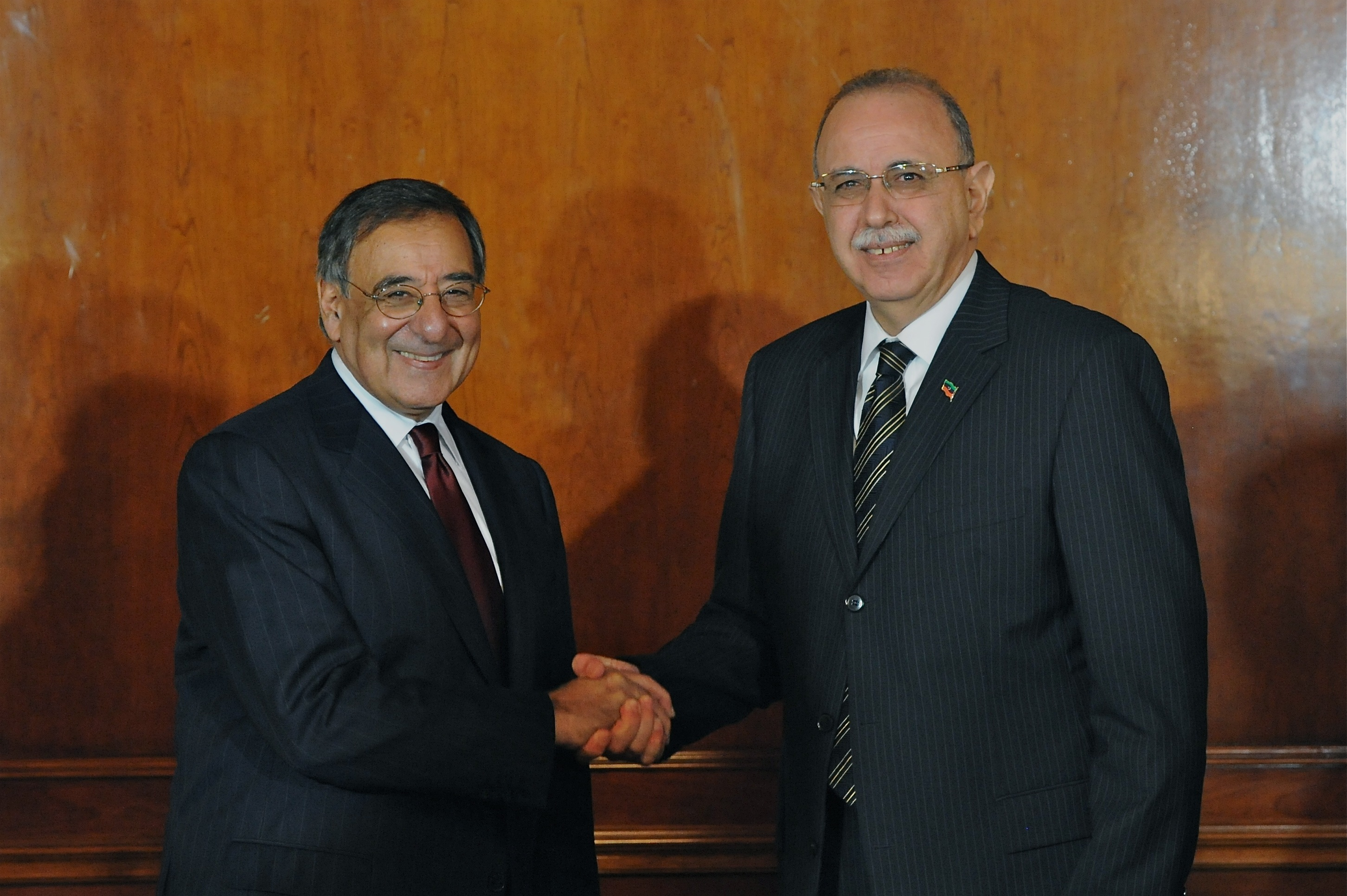 U.S. Defense Secretary Leon E. Panetta, left, shakes hands with Libyan Prime Minister Abd al-Raheem Al-Keeb in Tripoli, Libya.